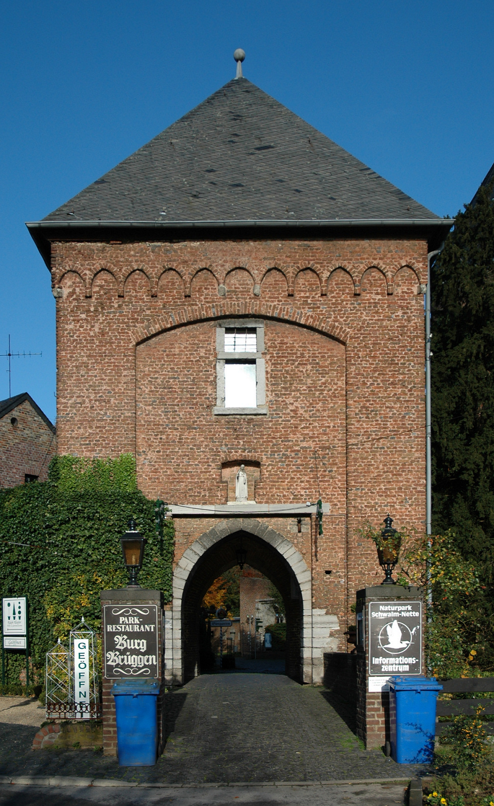 Gate house of Brüggen Castle